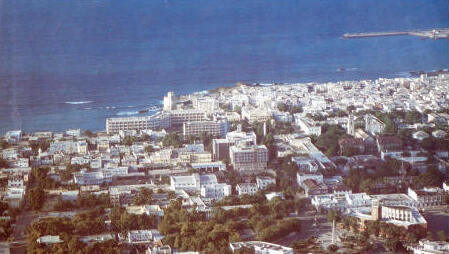 Waagii hore Mogadishu - Xamar Caddey